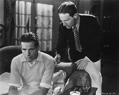 Humphrey Bogart & Spencer Tracy in American comedy film Up the River (1930)